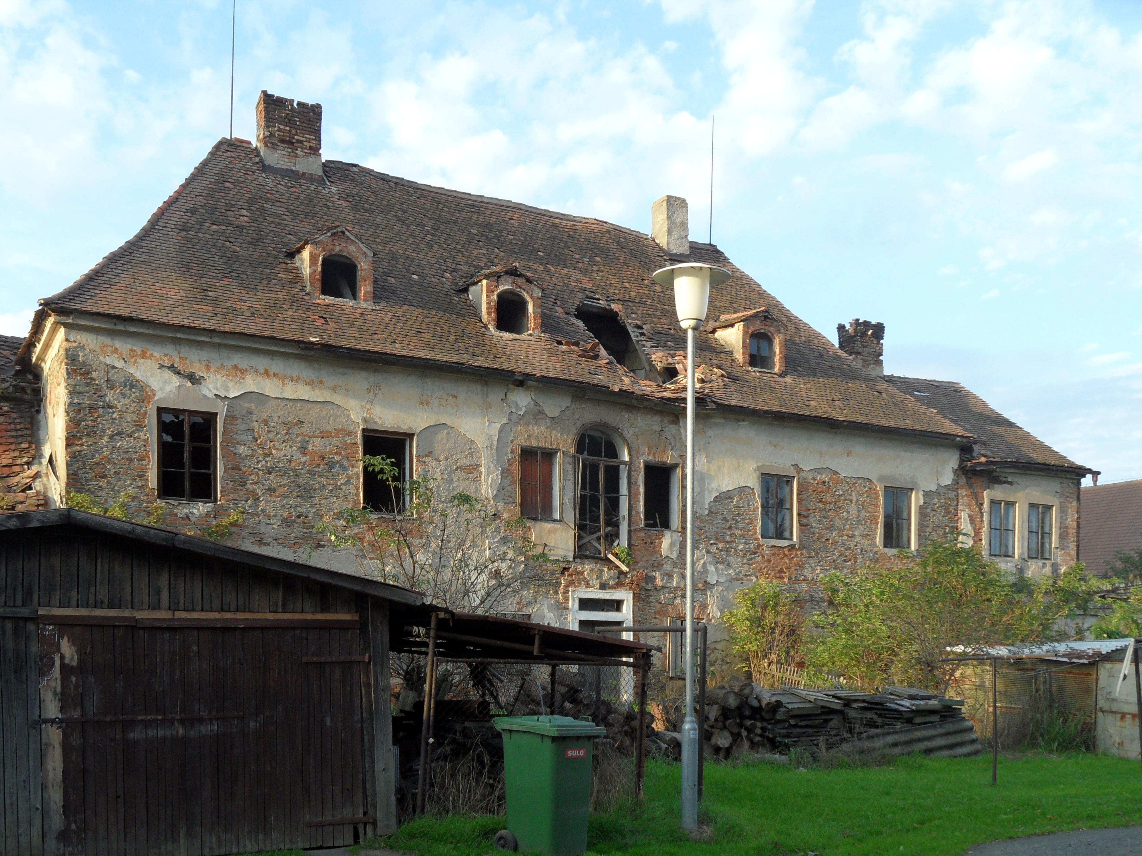 Žáky B. Devastated Chateau Žáky: View from South, Kutná Hora District, the Czech Republic.